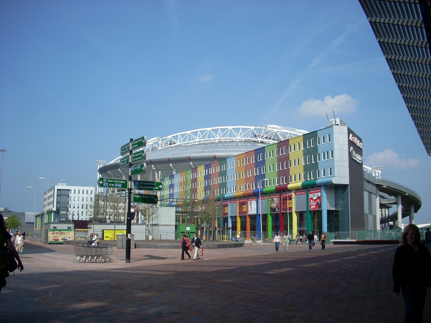 Johan Cruijff ArenA is a stadium in Amsterdam, Netherlands.